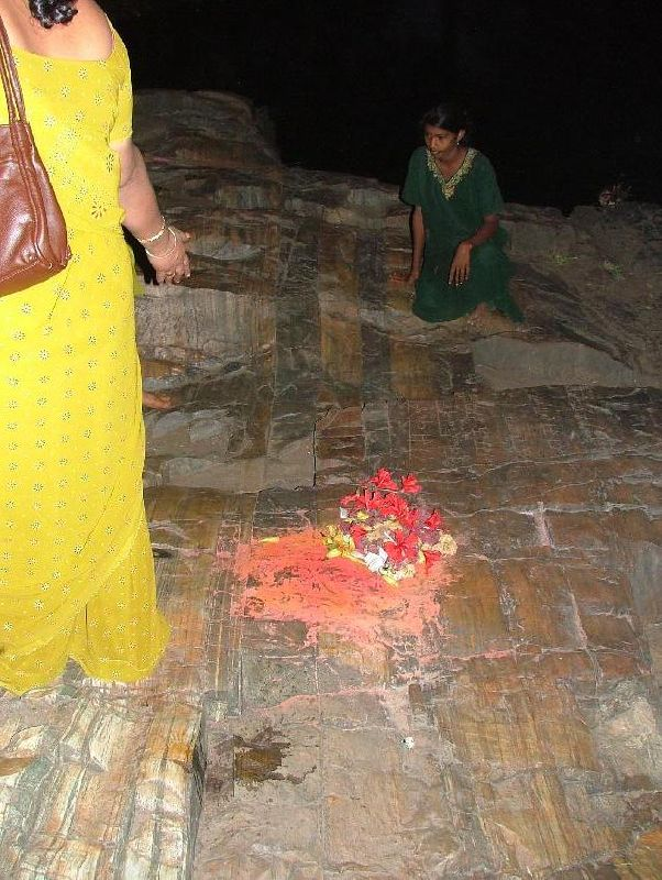 Stone marked by Sita's sari, adorned with vermillion powder and flowers. At Parnashala, close to Badrachalam in Andhra Pradesh